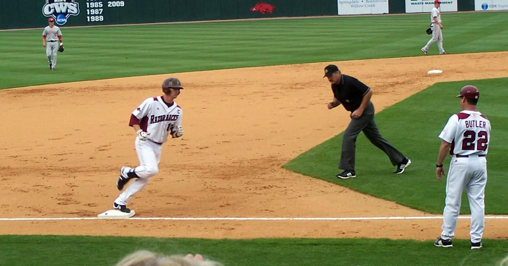 Andy Wilkins, University of Arkansas baseball player, rounds third base after hitting a home run.